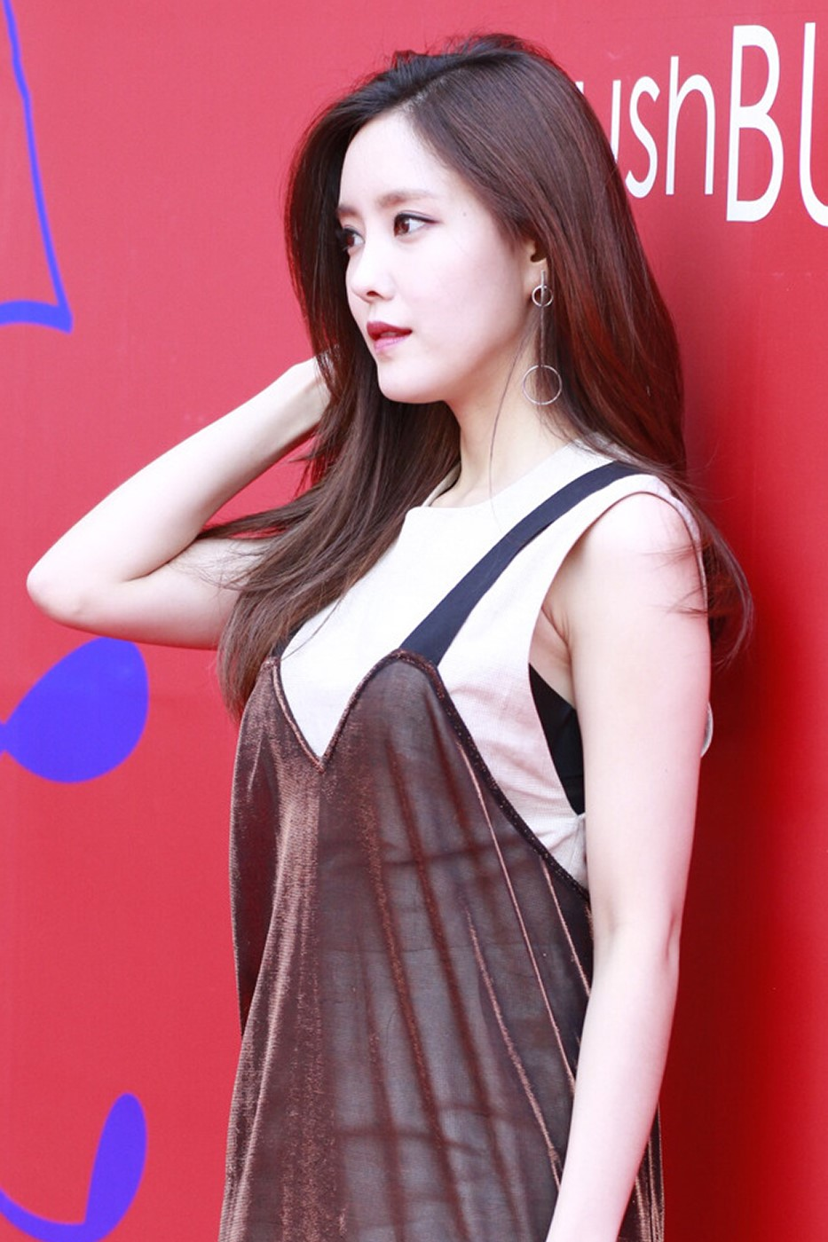 Hyomin at the Seoul Fashion Week on March 24, 2016.